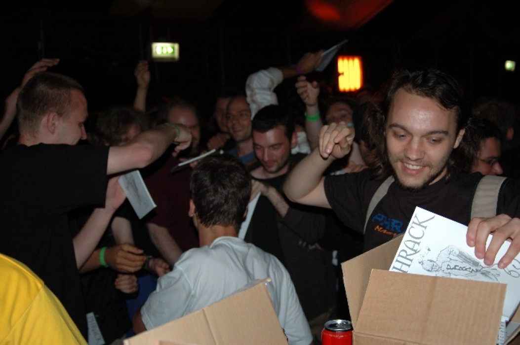 Phrack #63 Release Party at What The Hack conference in the Netherlands.